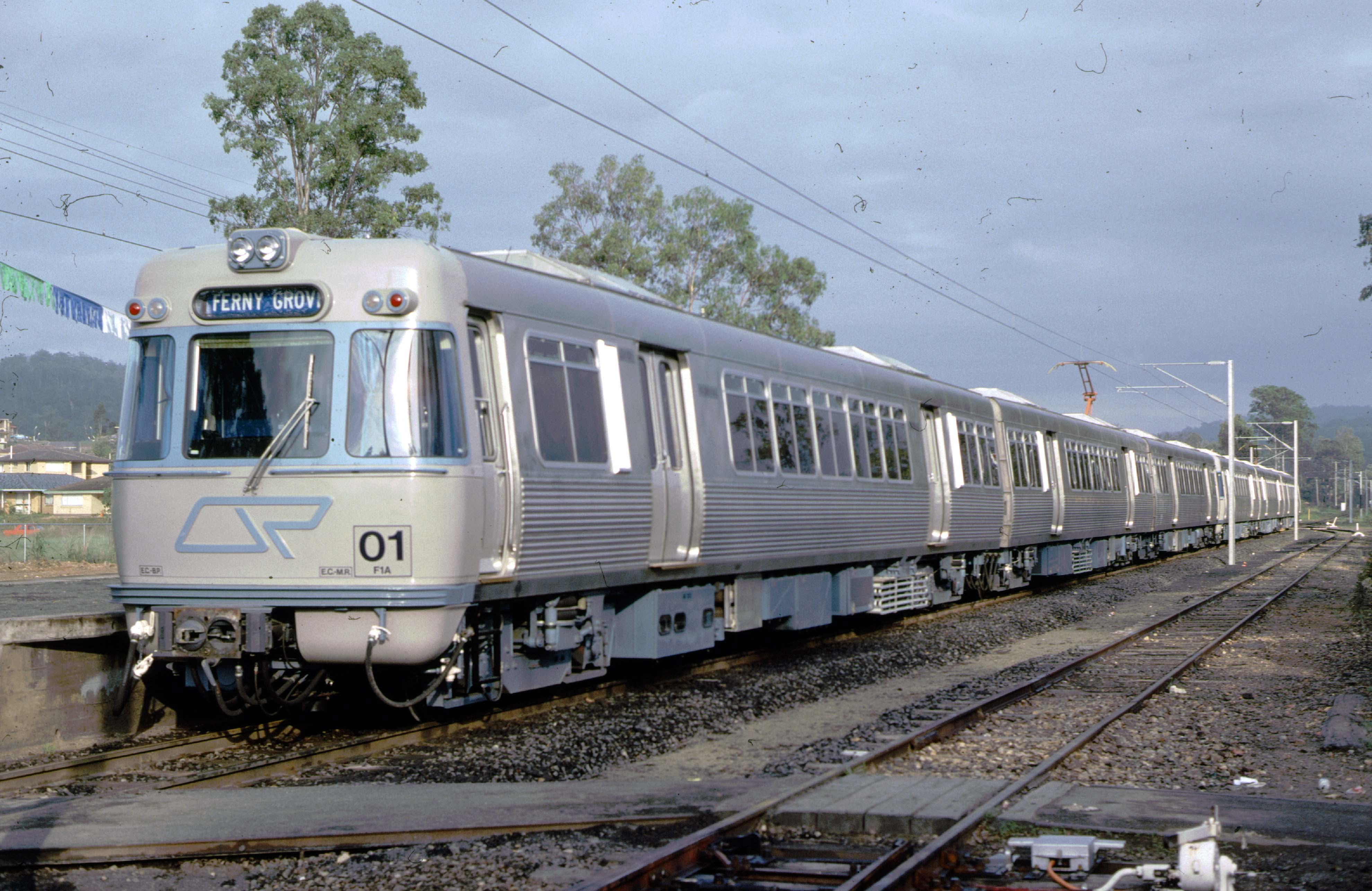 Queensland Rail EMU at Ferny Grove station for the opening of the first stage of the rail electrification in Queensland